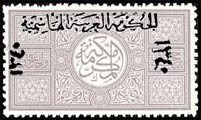 A postage stamp of the Kingdom of the Hejaz, 1921, Dec. 21, 1 pa, Scott #L14. Overprinted in black.